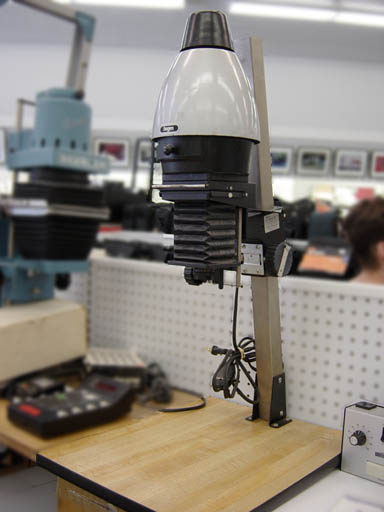 Picture of Bogen enlarger with digitally blurred background. Taken, copyright, and uploaded by Leonard G.